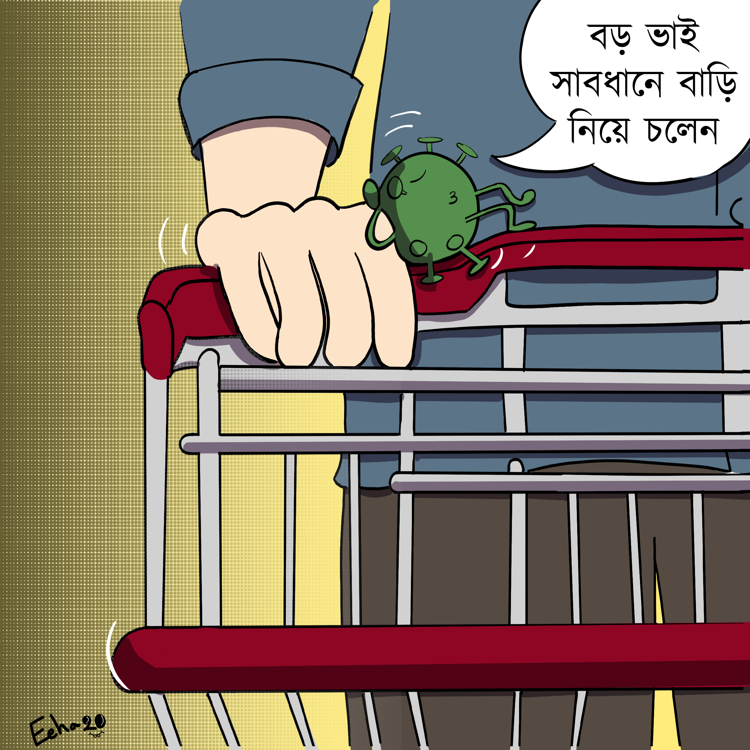 Artist, Visualization & dialogue : Anika Nawar Eeha Concept: Abdullah Al Mamun